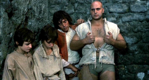 Screenshot from Il Decameron